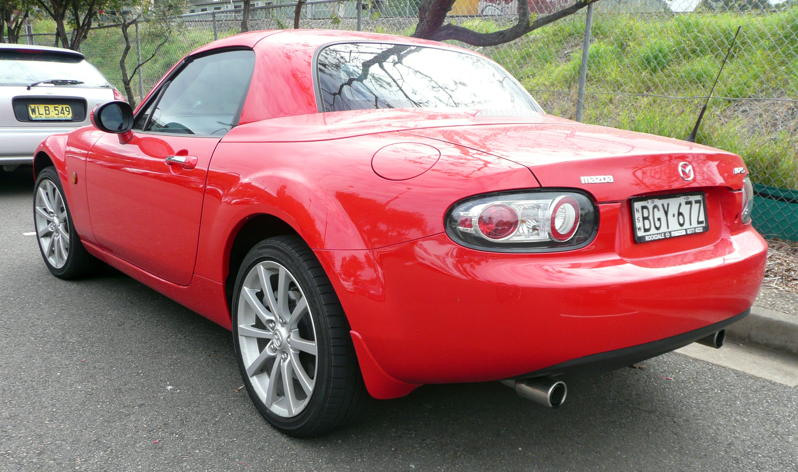 2005–2009 Mazda MX-5 (NC Series 1) hardtop. Photographed in Sutherland, New South Wales, Australia.